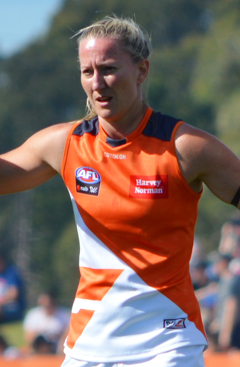 Tanya Hetherington during the round 1, 2018 AFL Women's match between Melbourne and Greater Western Sydney.